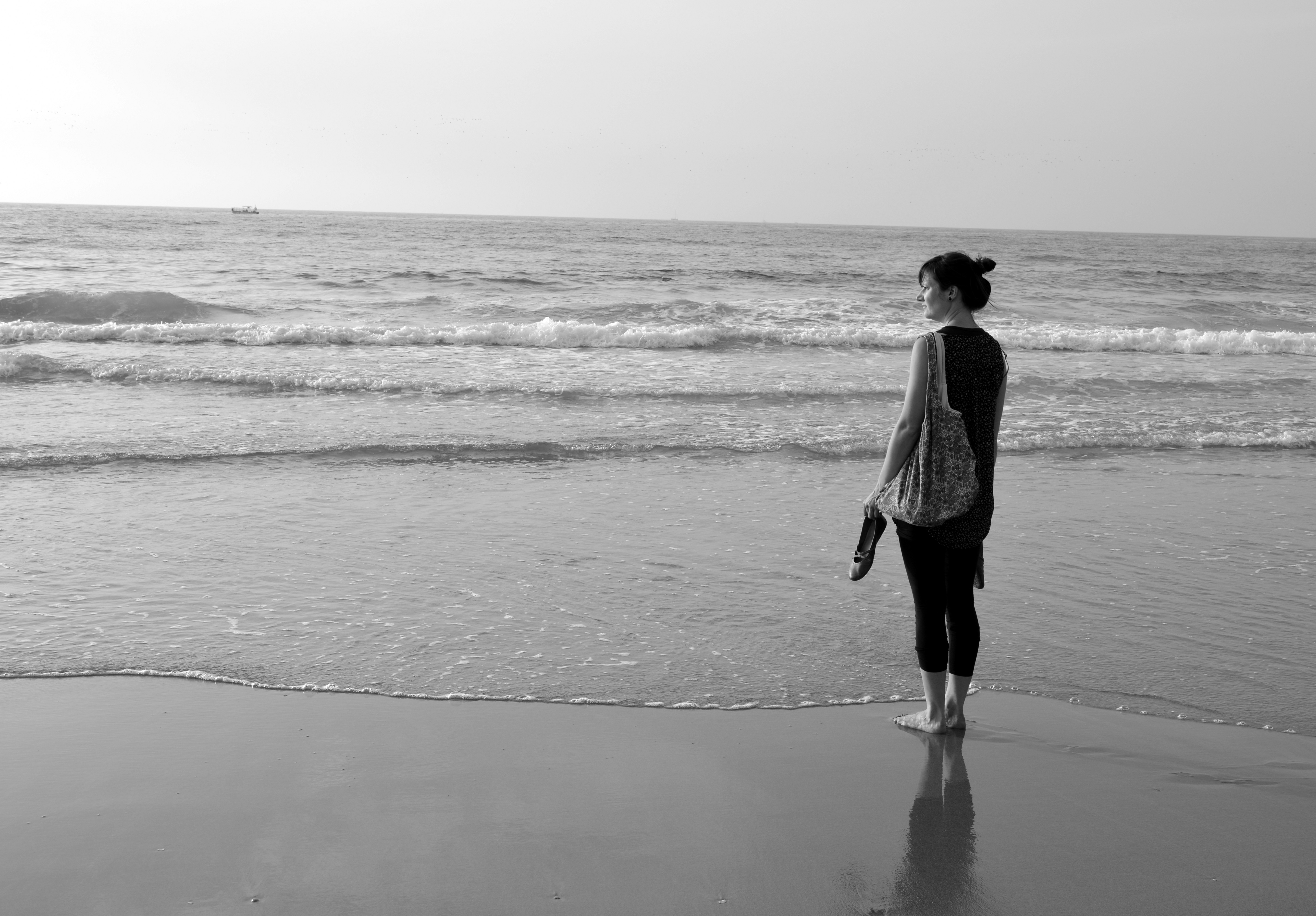 A woman on the Tel Aviv beach enjoying the last warmth of the sun before the sun set.